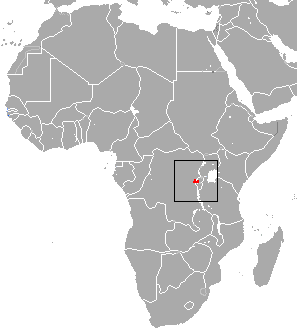 Kivu Long-haired Shrew (Crocidura lanosa) range